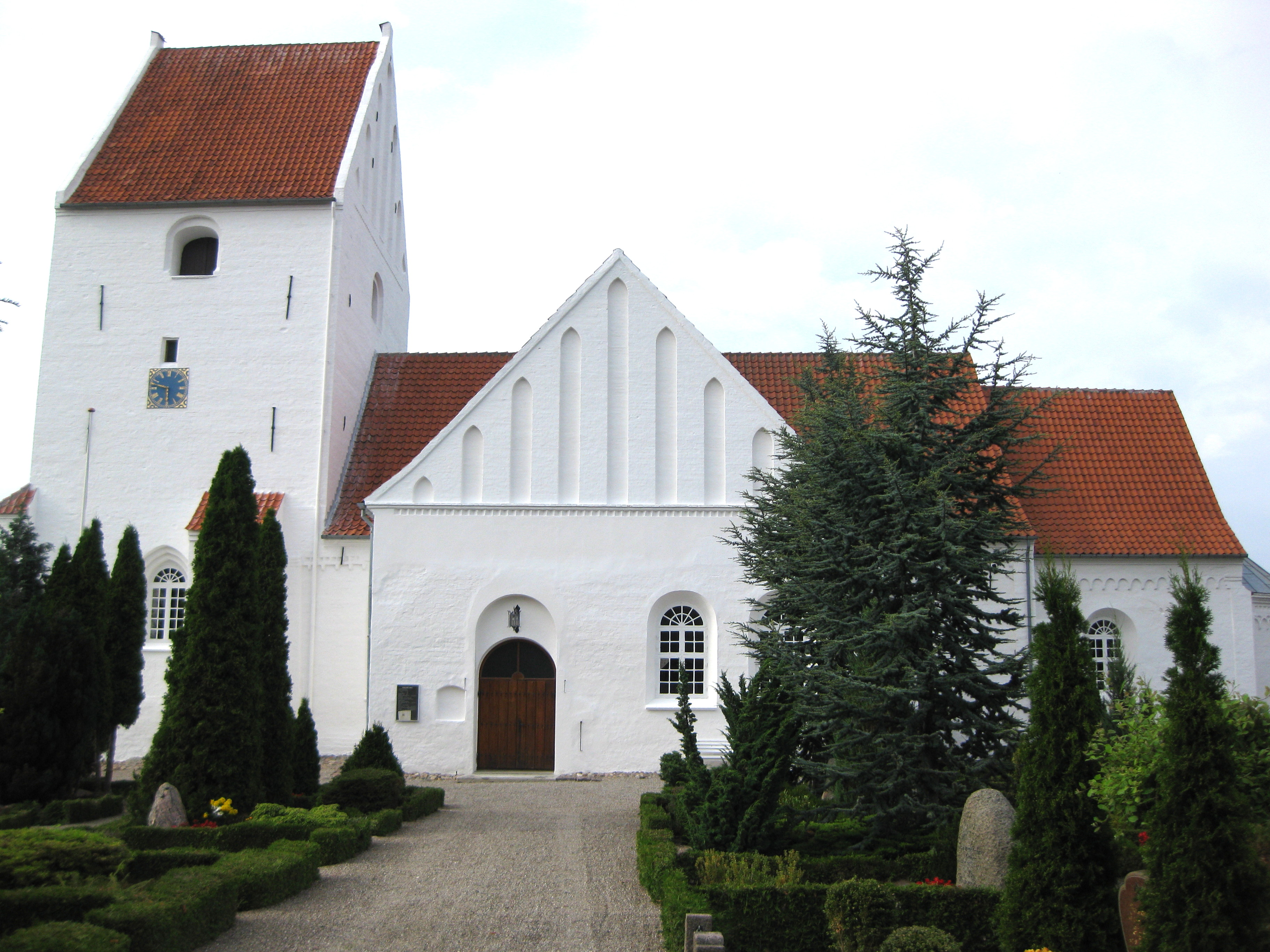 The church "Horslunde Kirke" in the village "Horslunde". The village is located on the island Lolland in east Denmark.